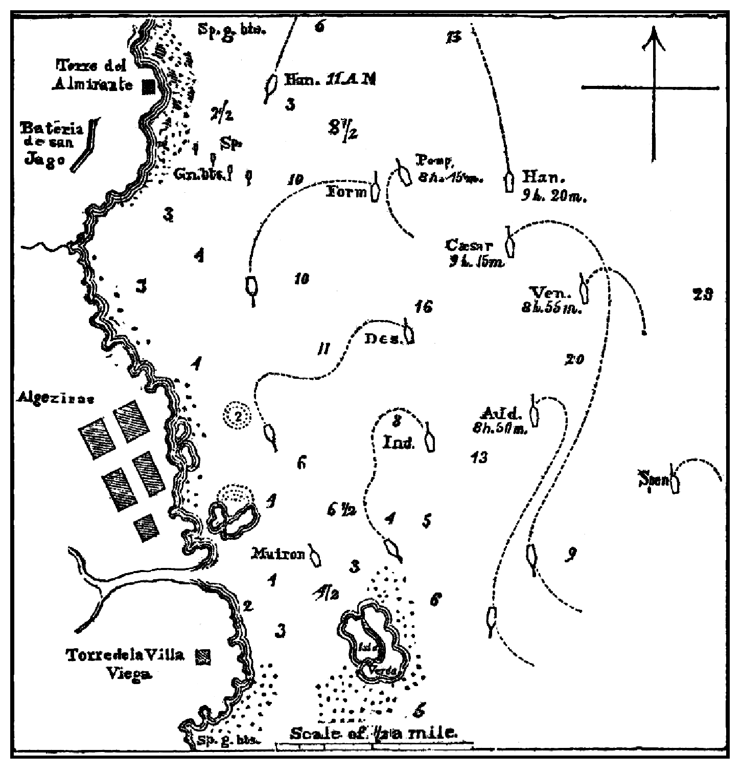 Map of the First Naval Battle of Algeciras